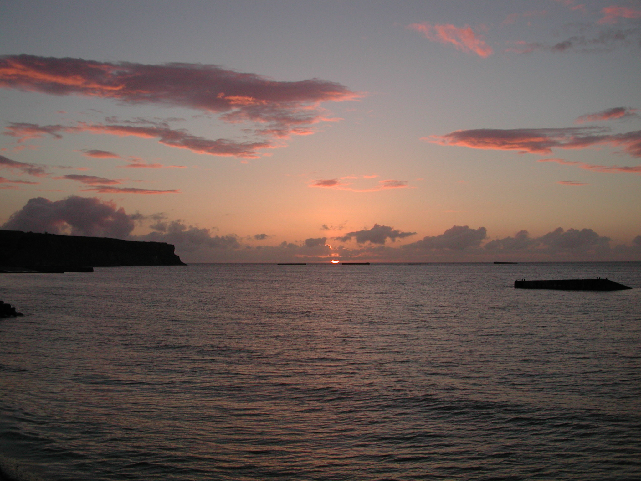 Image of the remaining caissons from the mulberry harbour at Arromanches-les-Bains at sunset. Four caissons are in the background and one is in the midground.